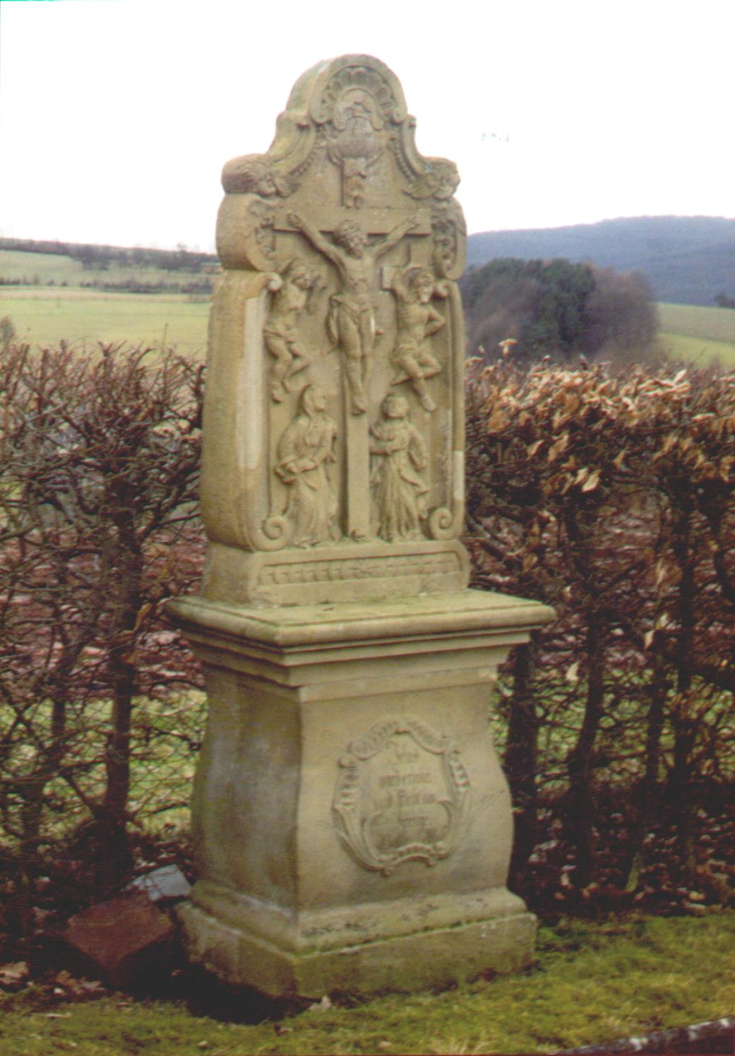 12th Station of the Way of the Cross in Hausen, a quarter of the German spa town of Bad Kissingen in Lower Franconia (Bavaria).